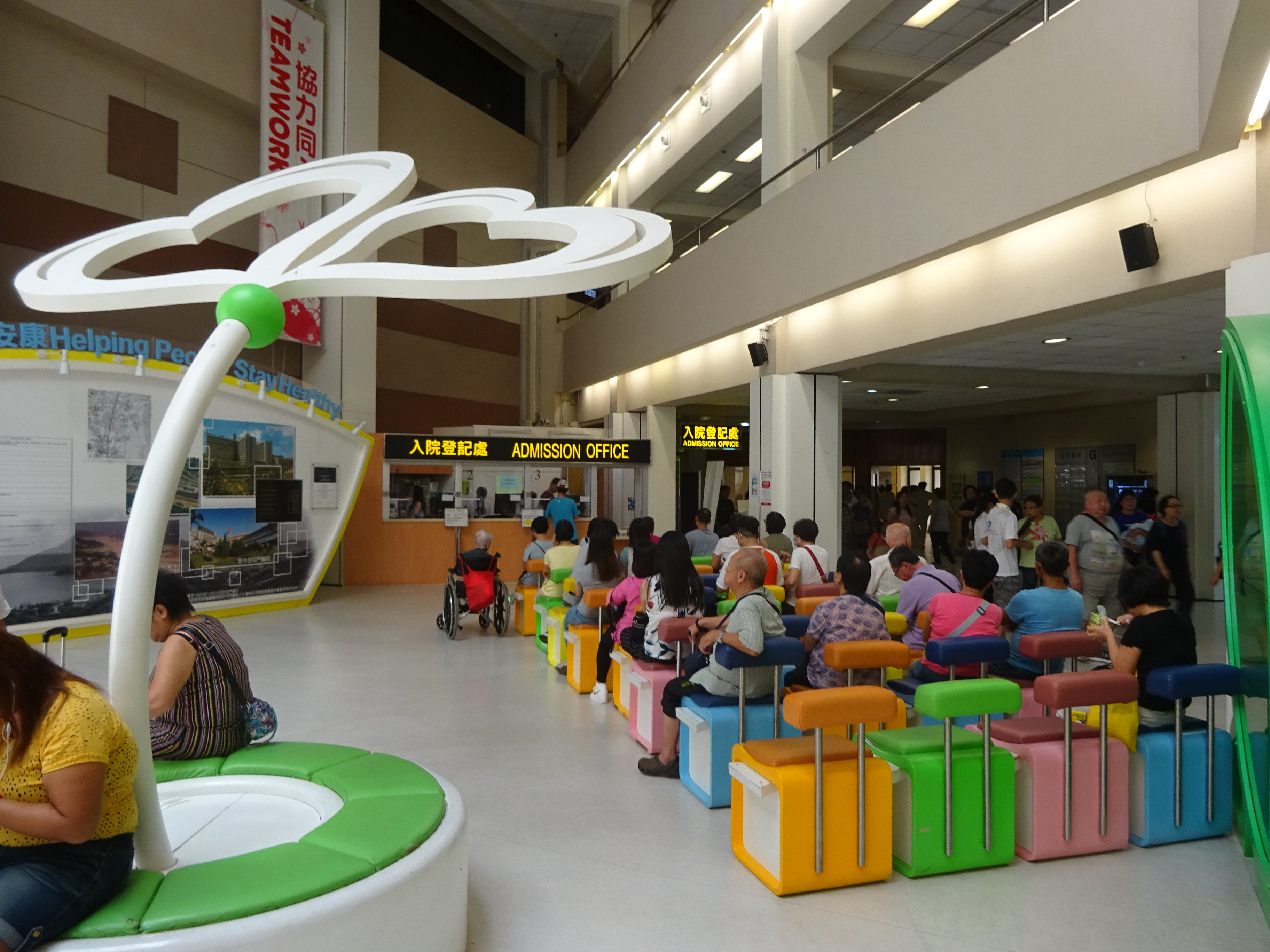 HK 屯門醫院 Tuen Mun Hospital in July 2016